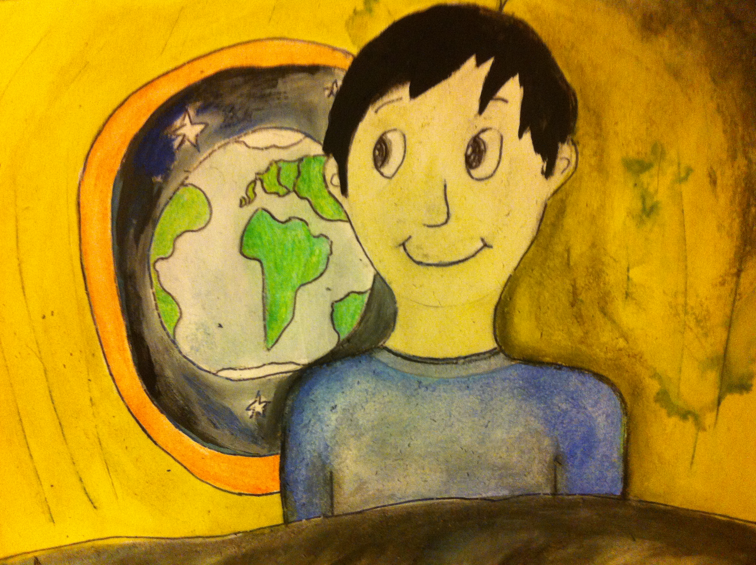 'The Brilliant Book Adventure' was created by Jessica Taylor for the song 'Adventure' which was written by Rhonda Merrick and composed by Ritchie Swann for British television series for children, The Brilliant Book.